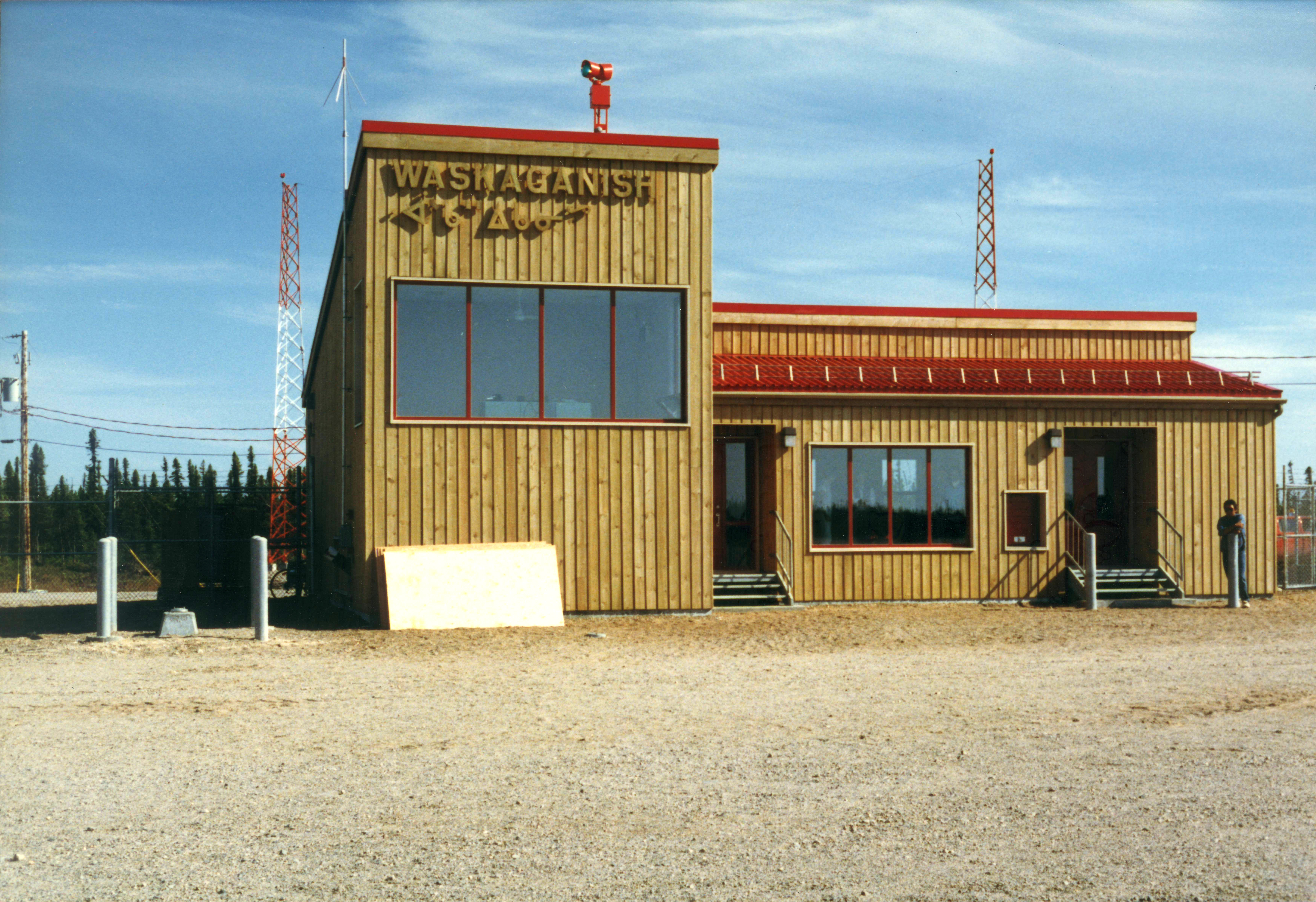 The Waskaganish Airport in 1987, probably July (if not then early August).